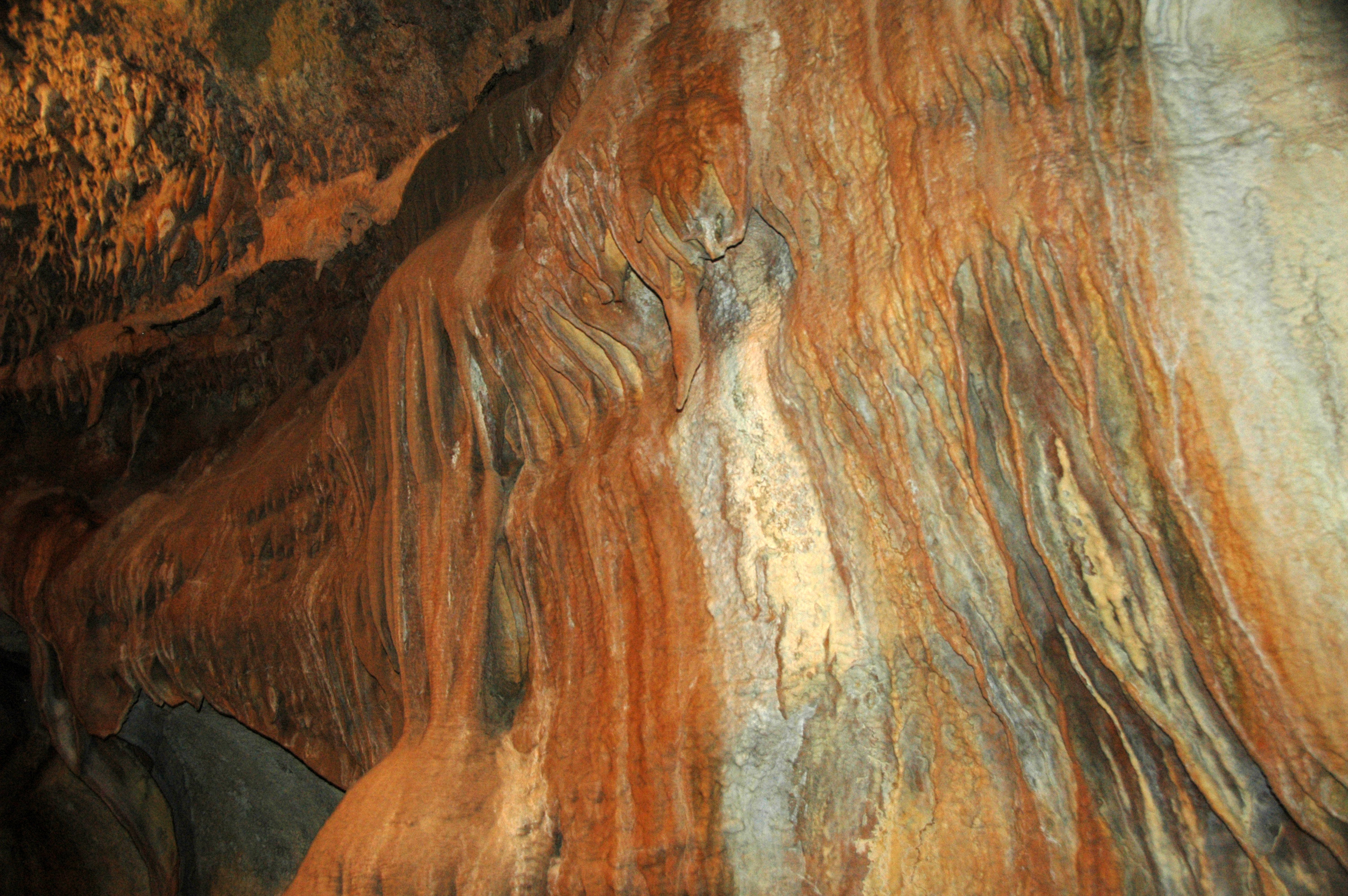 007 Flowstone & draperies 1